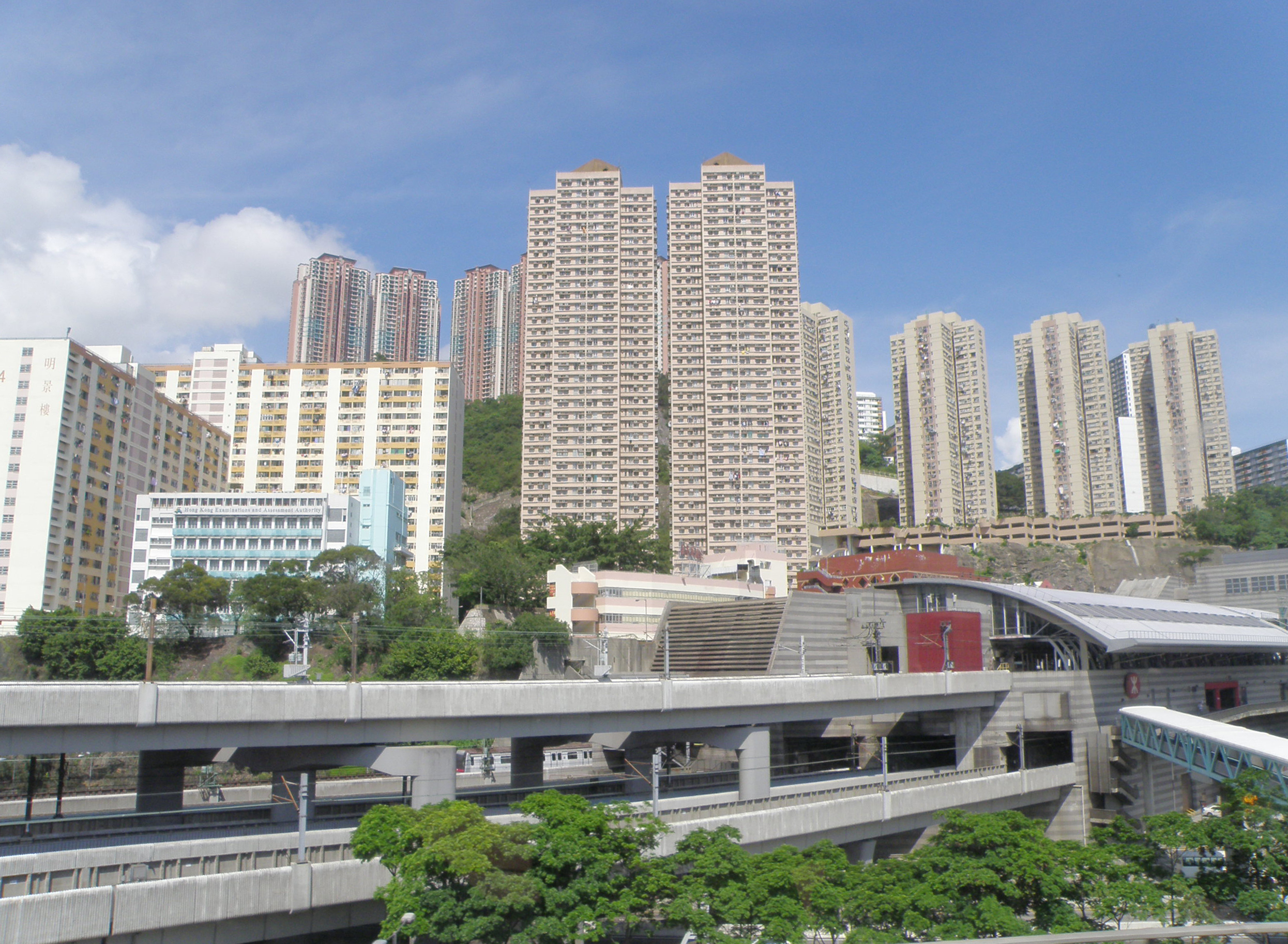 Lai King, Hong Kong.